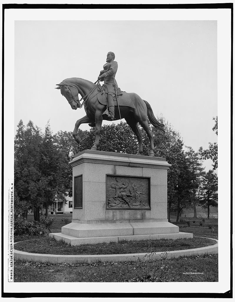 Photograph shows the statue of Gen. Fitzjohn Porter, Portsmouth, N.H., 1 negative: glass; 8 x 10 in. Detroit Publishing Co. no. 019913., Library of Congress Prints and Photographs Division